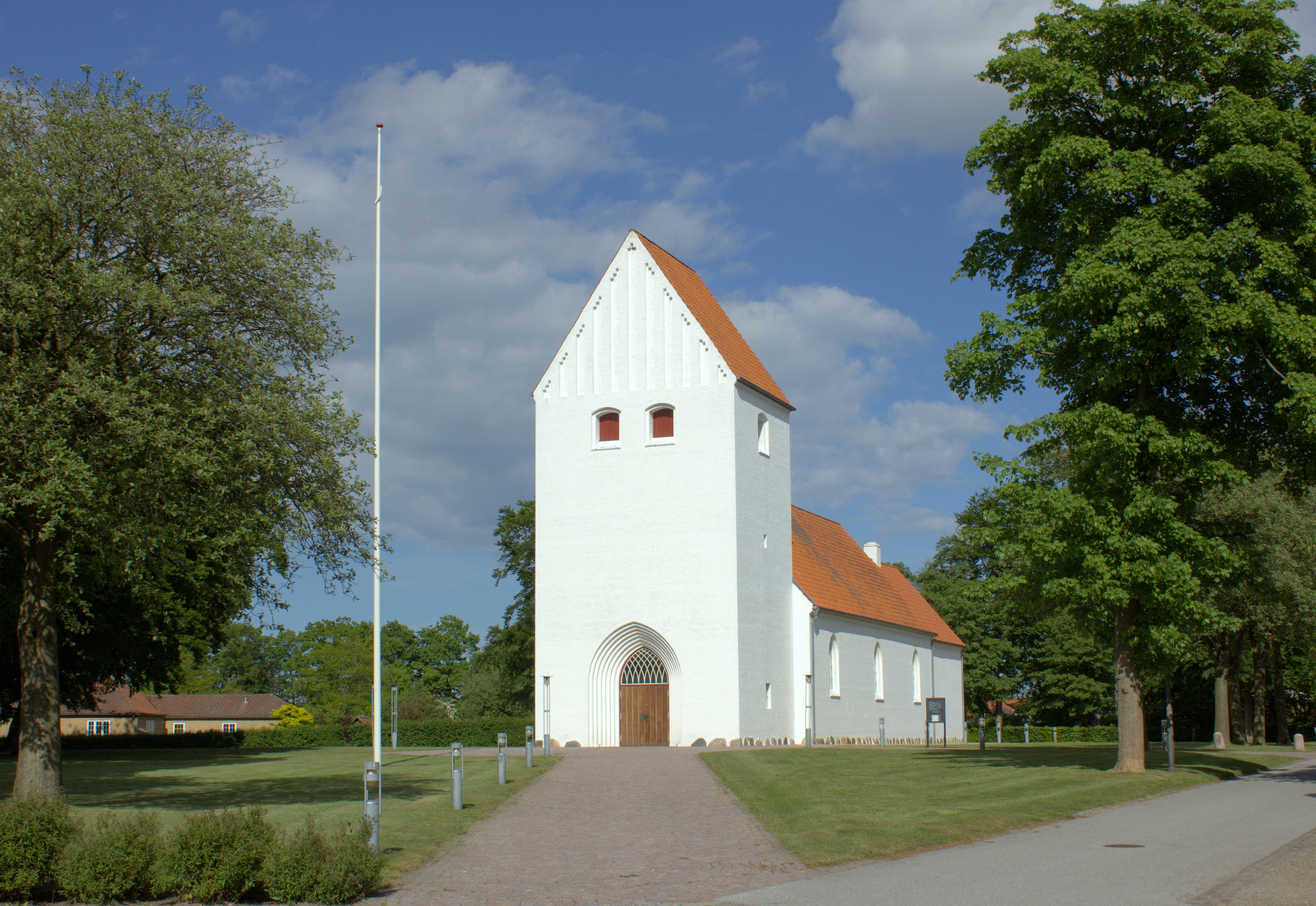 Vojens Kirke is a reunionchurch, from the beginning of the 1920s and was inagurated 6. september 1925. The church yard is older than the church and it was taken in use 28. Januar 1878. In the middle of the churchyard, lies "the red chapel", which was built a few years after the churchyard was established and the chapel was taken in use in 1883.